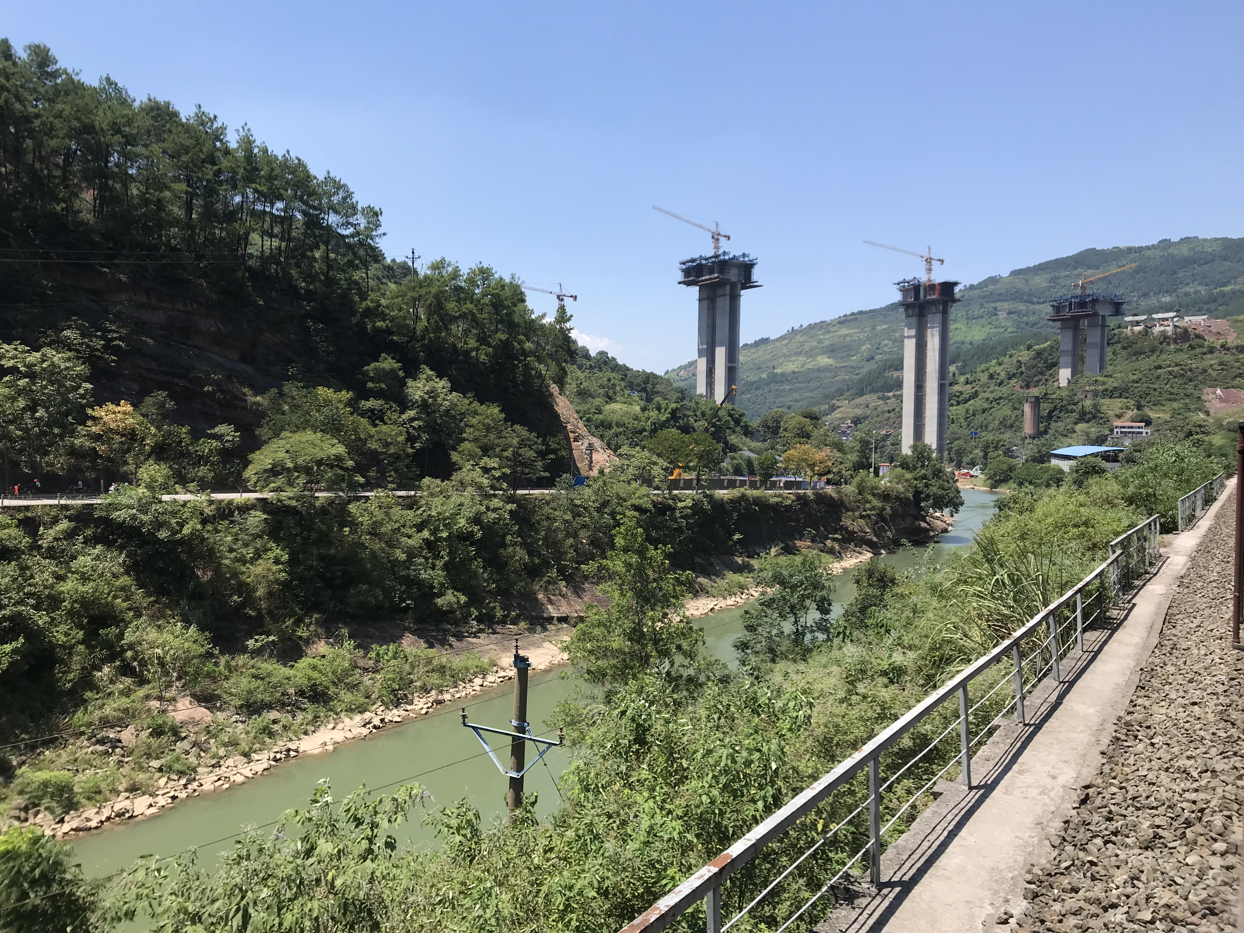 201908 G75 Yuqian Expressway Songkan River Bridge under Construction